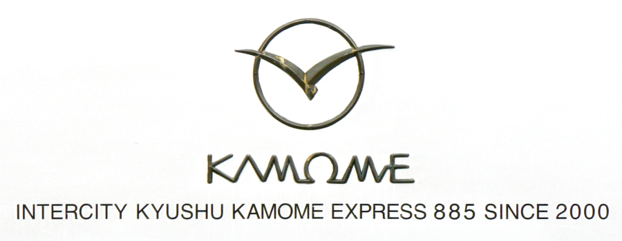 Kamome logo on a JR Kyushu 885 series EMU